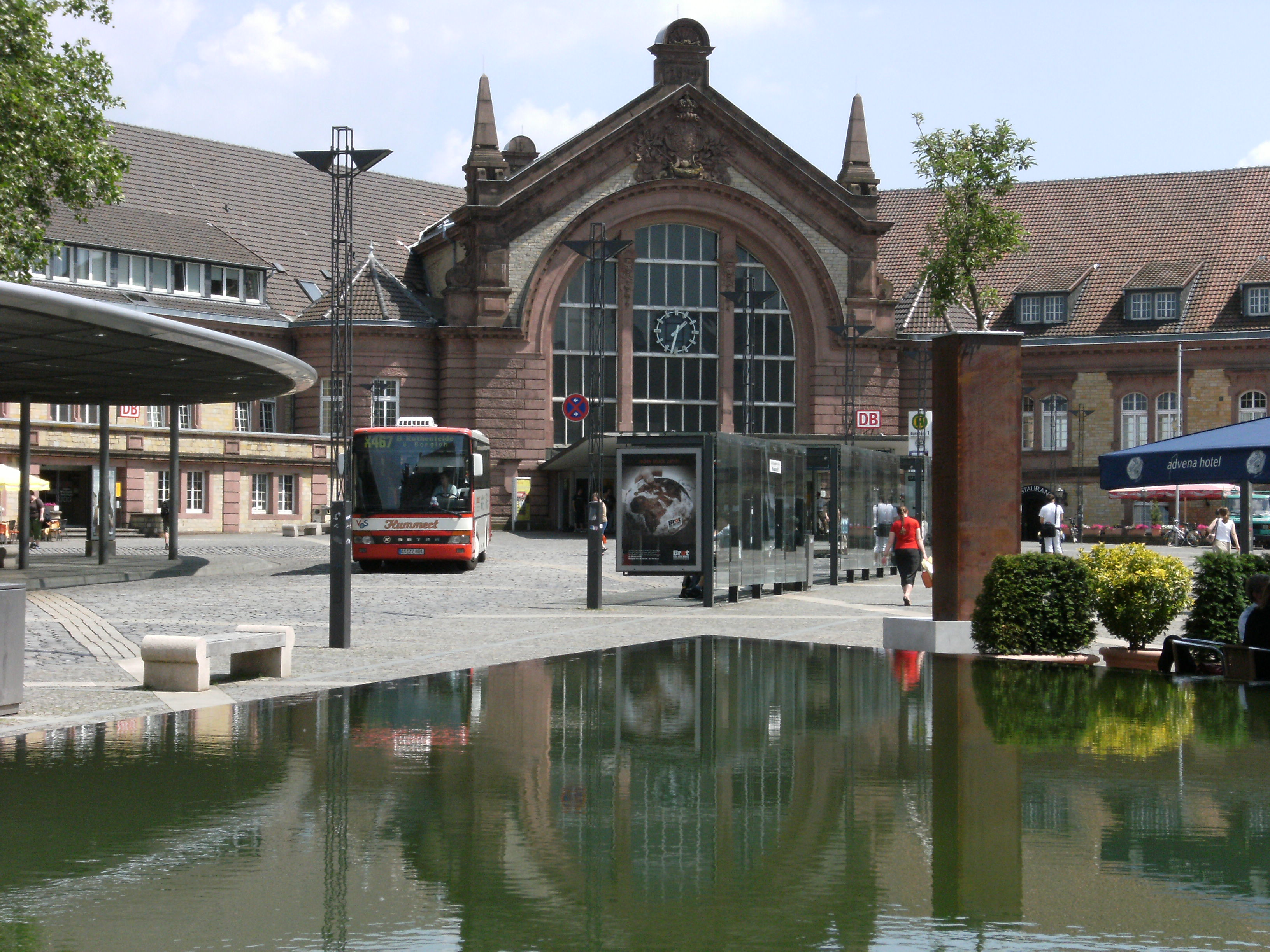 Train station in Osnabrück.